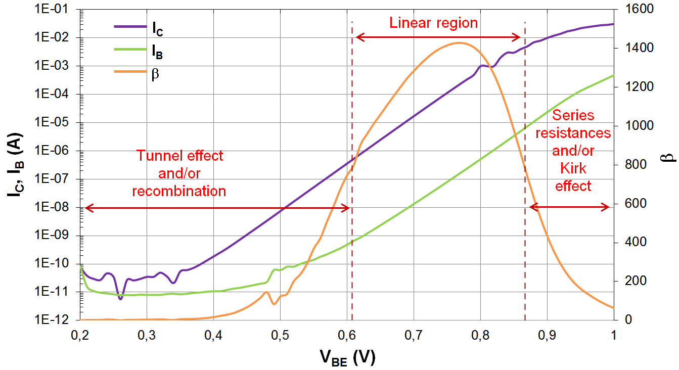 This Gummel Plot was originally generated from DC measurements on a SiGe:C heterojunction bipolar transistor.